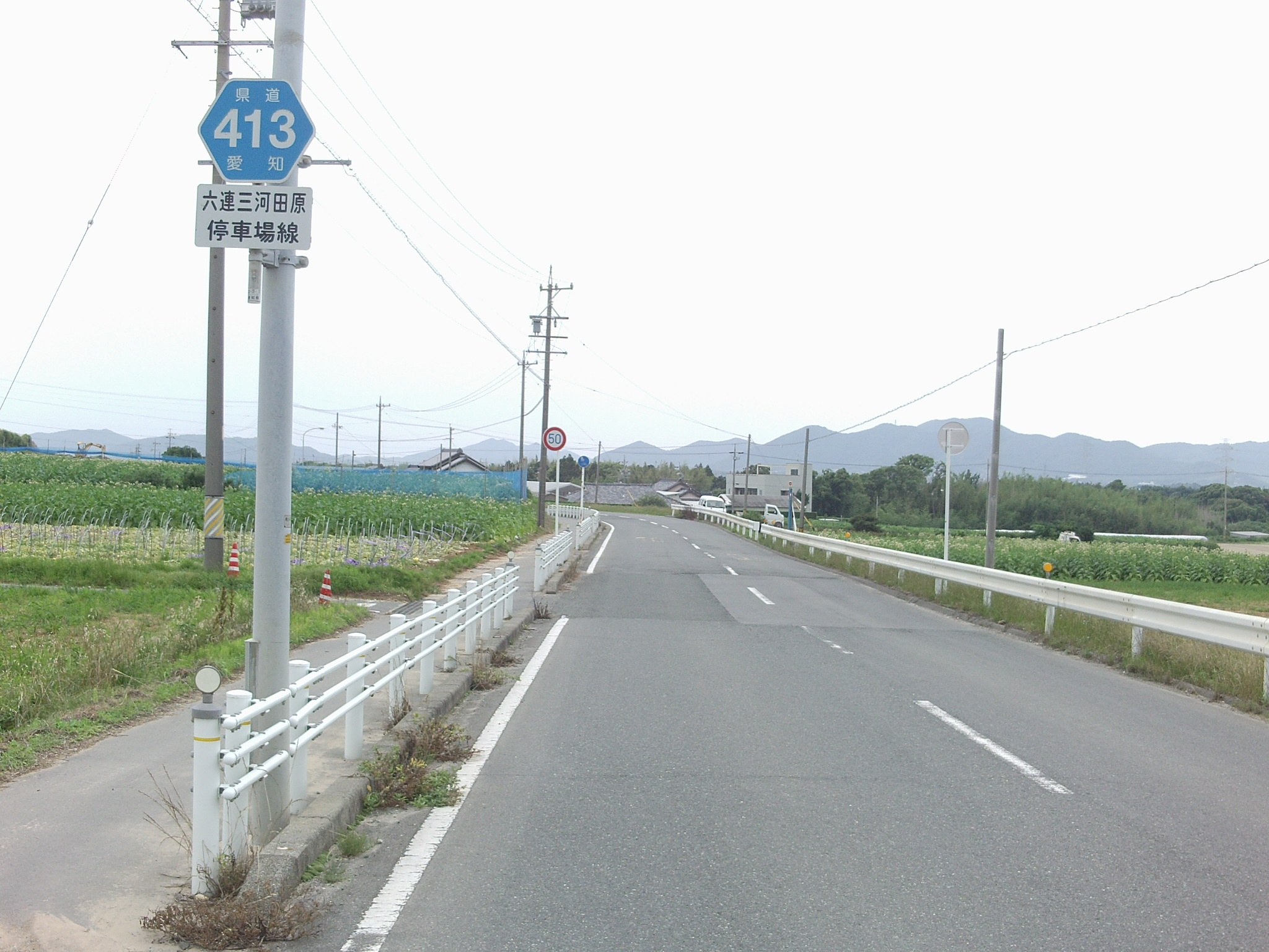 Aichi prefectural road No.413 in Mitsurecho, Toyohashi, Aichi.